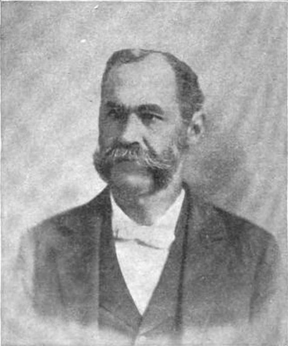 Photo of N. F. Roberts